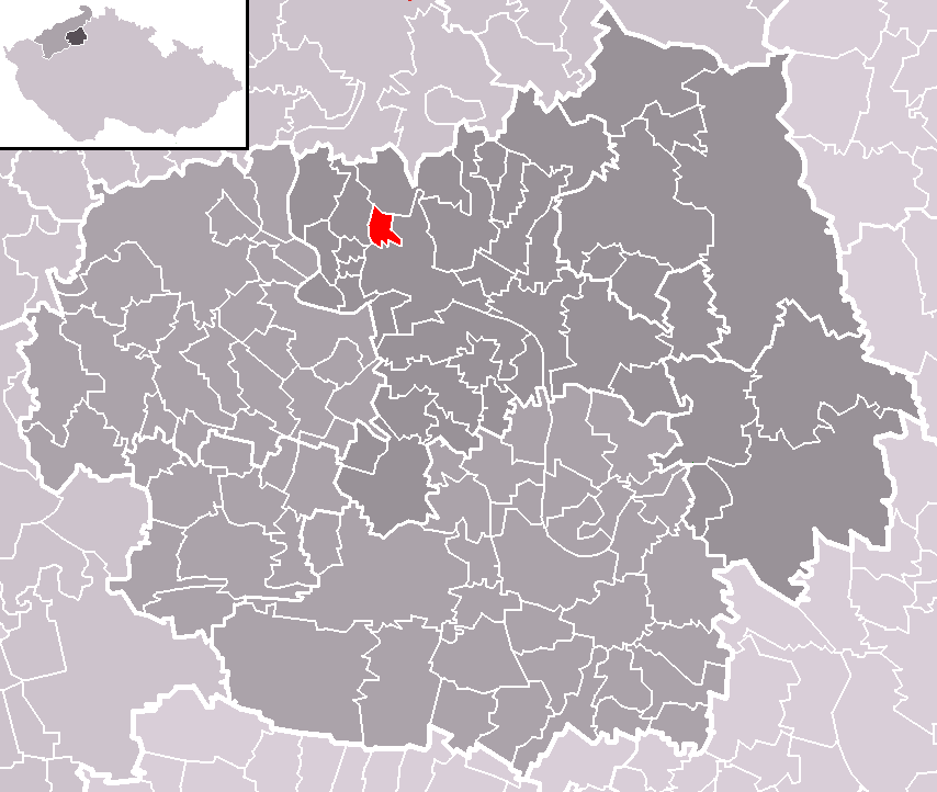 Location of Miřejovice municipality within Litoměřice District and administrative area of Litoměřice as a Municipality with Extended Competence.